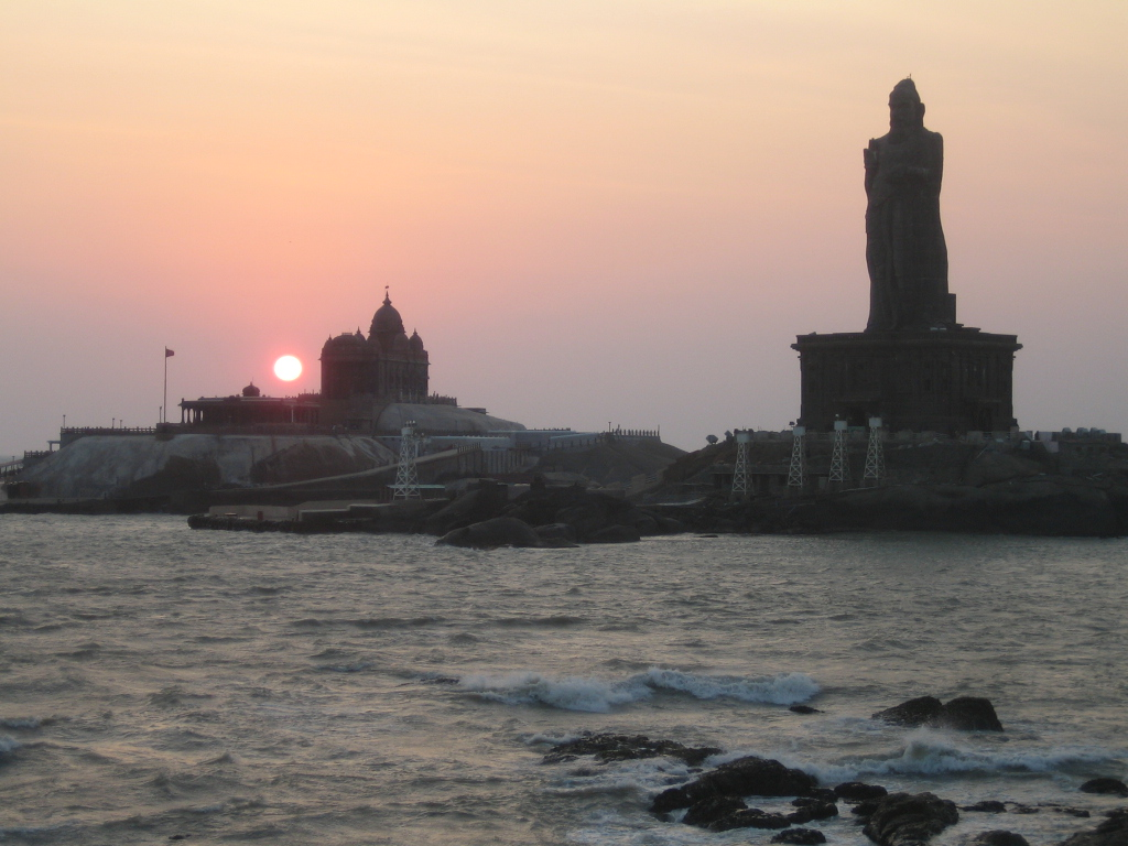 Sunrise at Kanyakumari